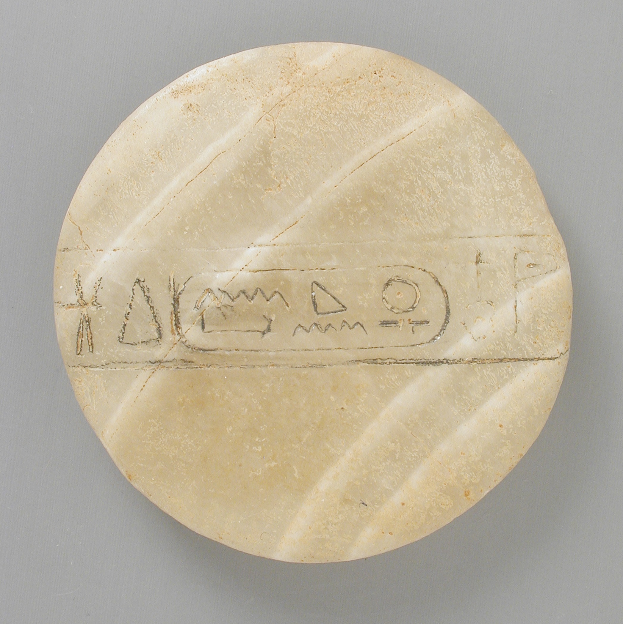 Egypt, New Kingdom, 17th Dynasty, reign of Seqenenre Tao (1600 - 1571 BCE) Furnishings; Serviceware Calcite Diameter: 2 5/16 in. (5.8 cm) Gift of Carl W. Thomas (M.80.203.224) Egyptian Art